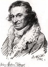 The portrait of painter Johann Christian Klengel (1751-1824)